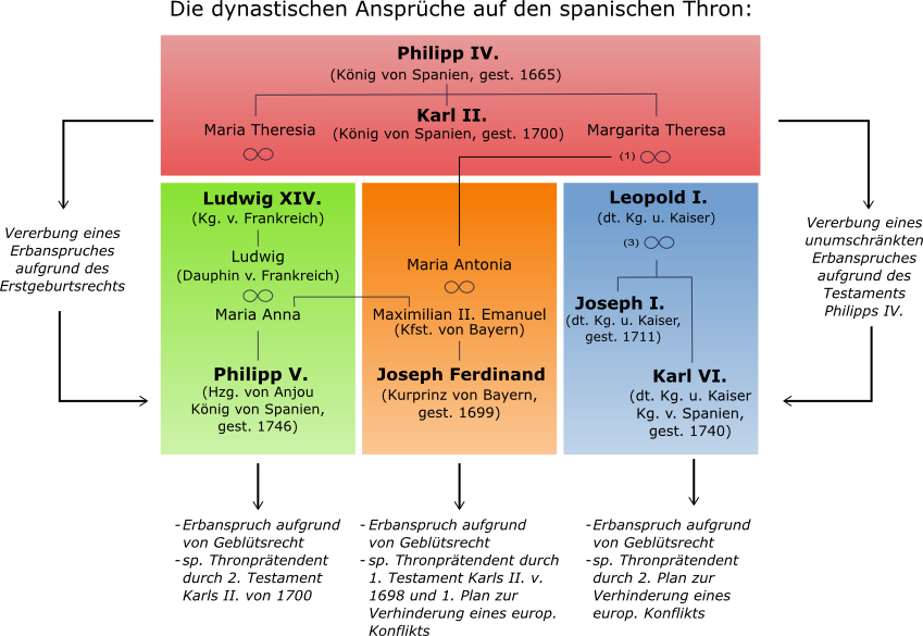 A Scheme from the Dynastic Background for the War of the Spanish Succession in German